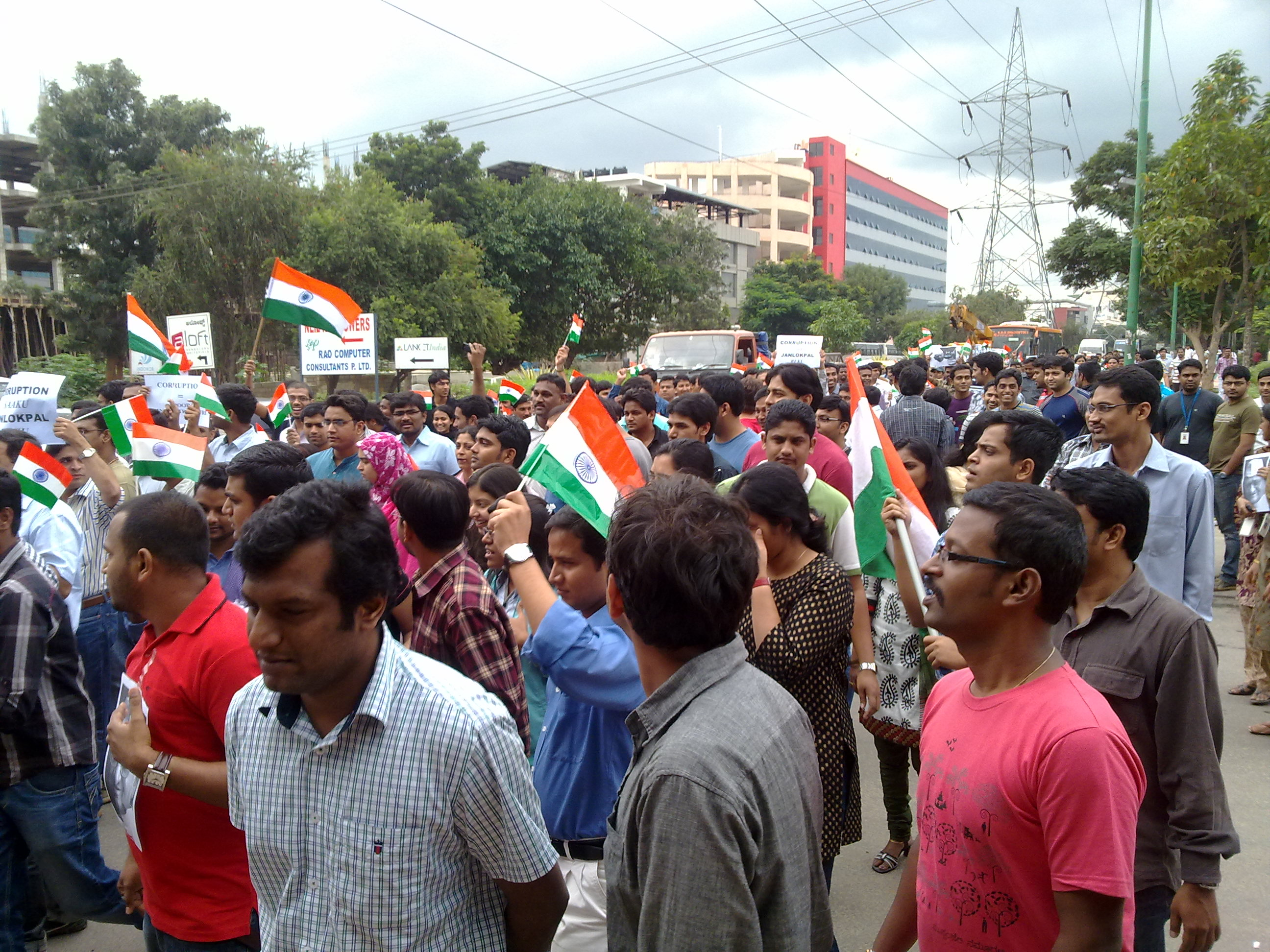 Demonstrations and protests in Whitefield, Bangalore on 19th August